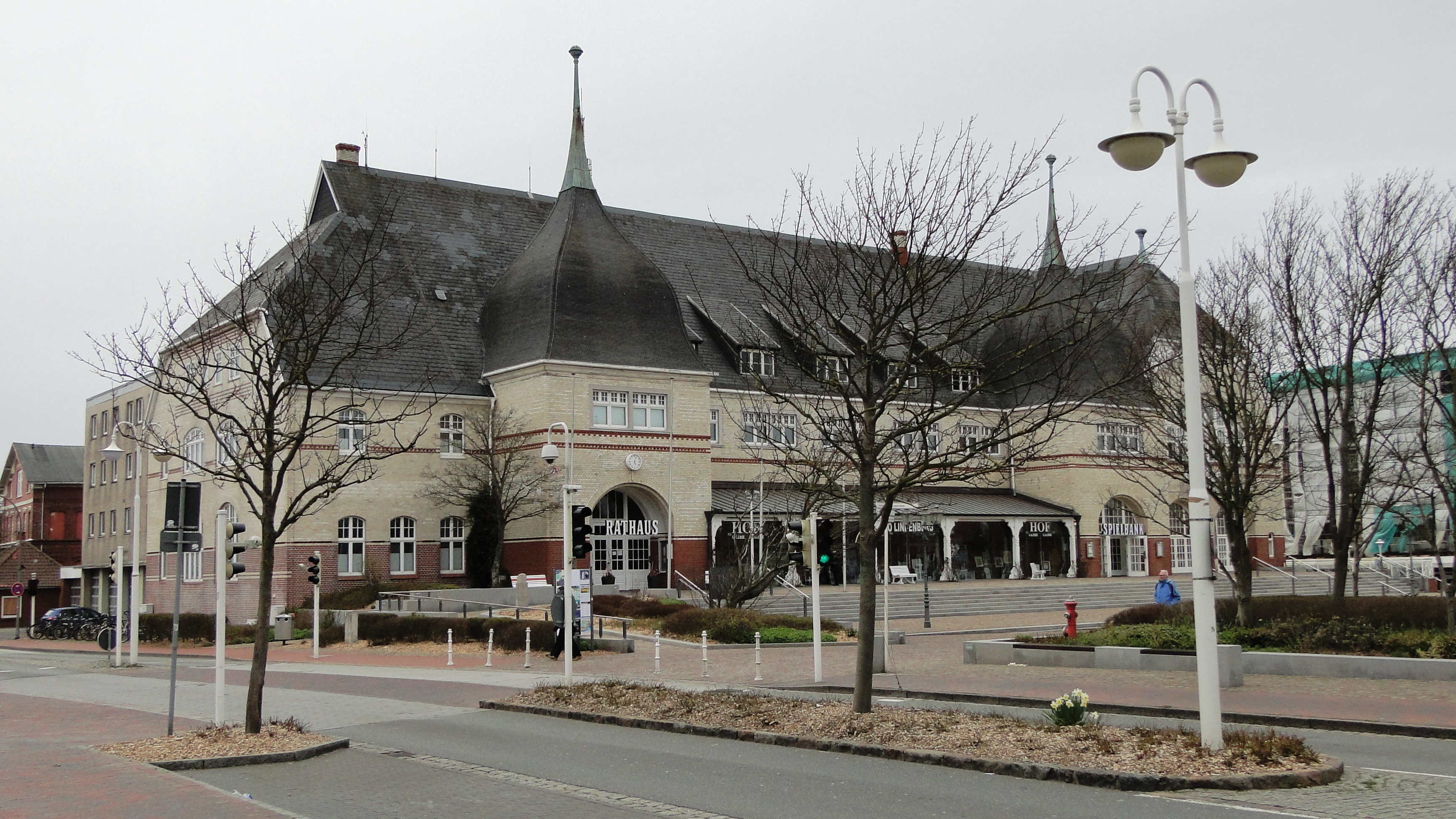 townhall of Westerland, Sylt, Germany